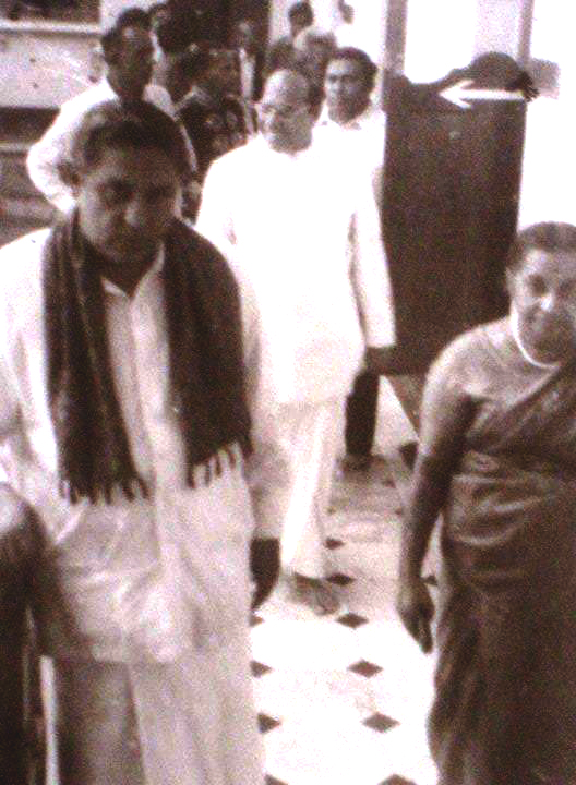 Photograph of H.E William Gopallawa and First Lady Seela Gopallawa with Dr Nissanka Wijeyeratne at the Sri Dalada Maligawa, brightened